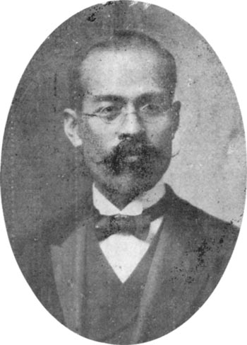 Mr. Yoshitō Tanaka.